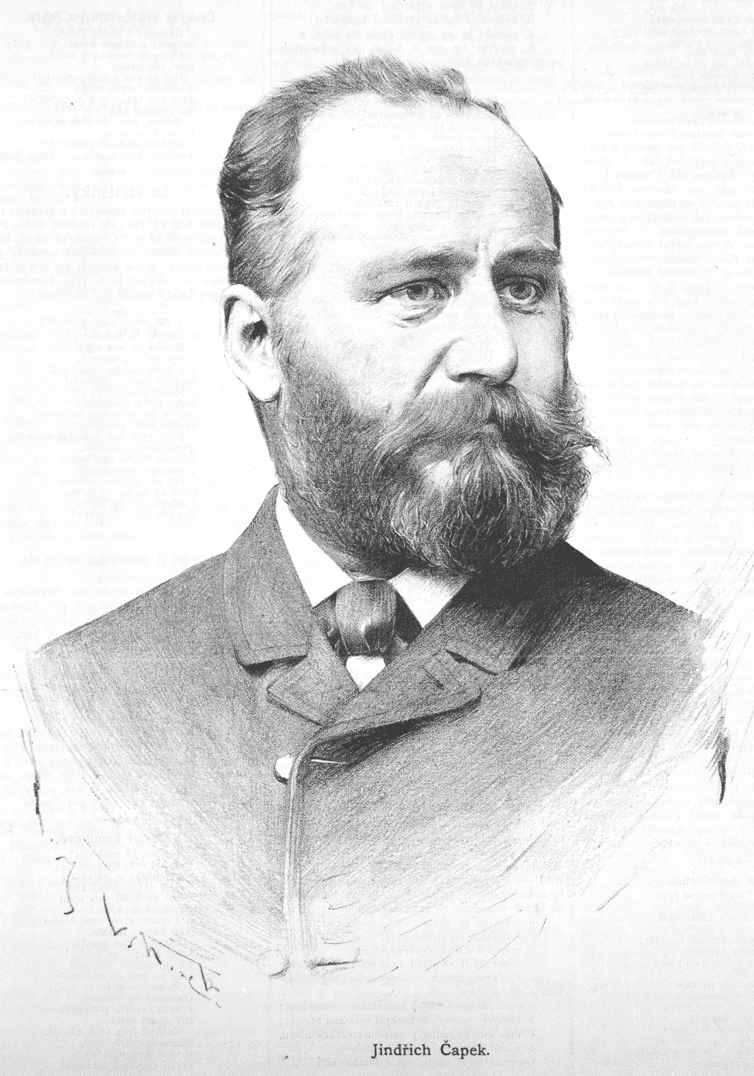 Portrait of Jindřich Václav Čapek (1837-1895), Czech sculptor